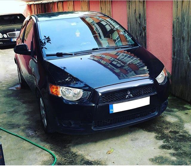 2010 Mitsubishi Colt CZ3